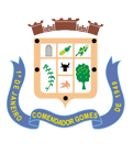 Coat of arms of the city of Comendador Gomes, Minas Gerais, Brazil.